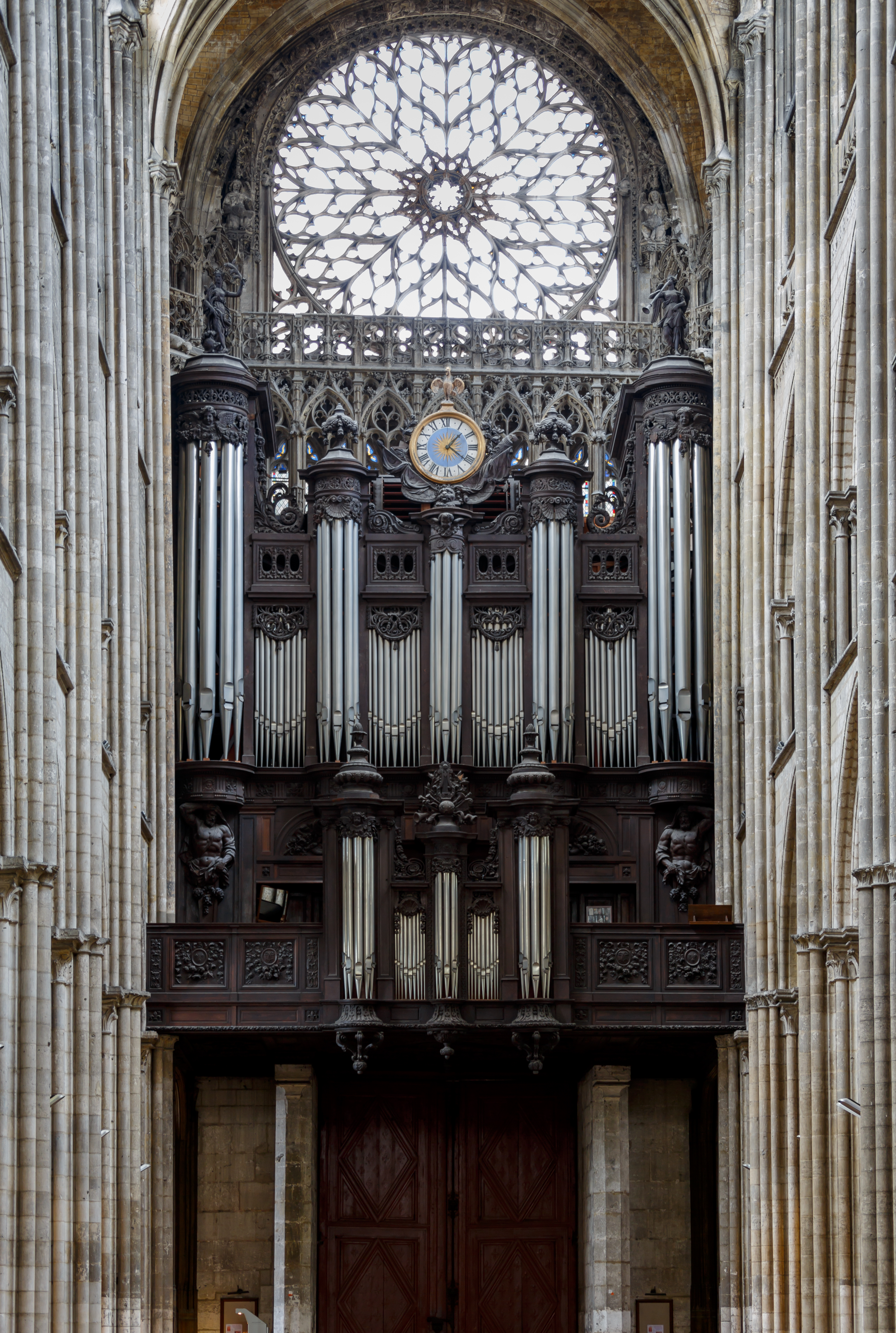 Rouen, France: Pipe organ of cathedral Notre-Dame in Rouen